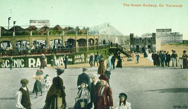 Great Yarmouth Pleasure Beach site in 1909